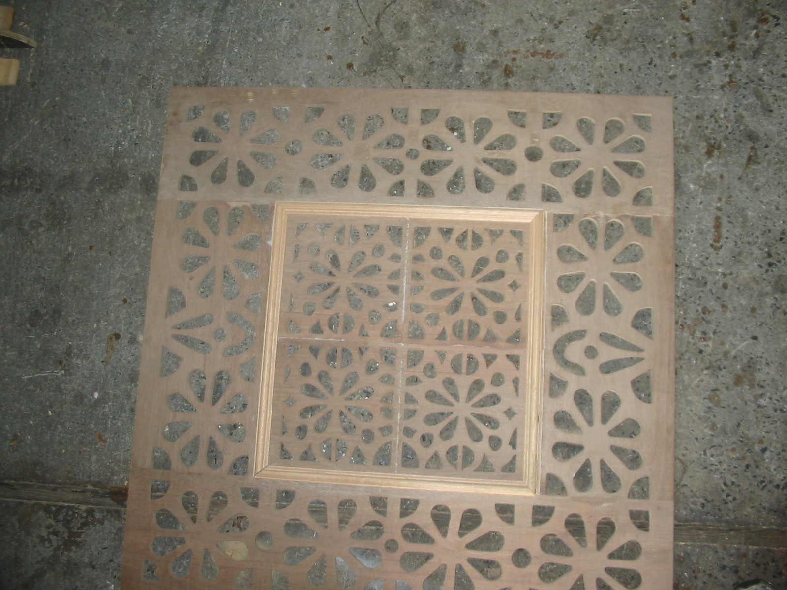 From ACS Timber Fretwork - sorry about the concrete background-welcome to edit. It is Moorish looking design which ended up being used as a ceiling lightbox grill.